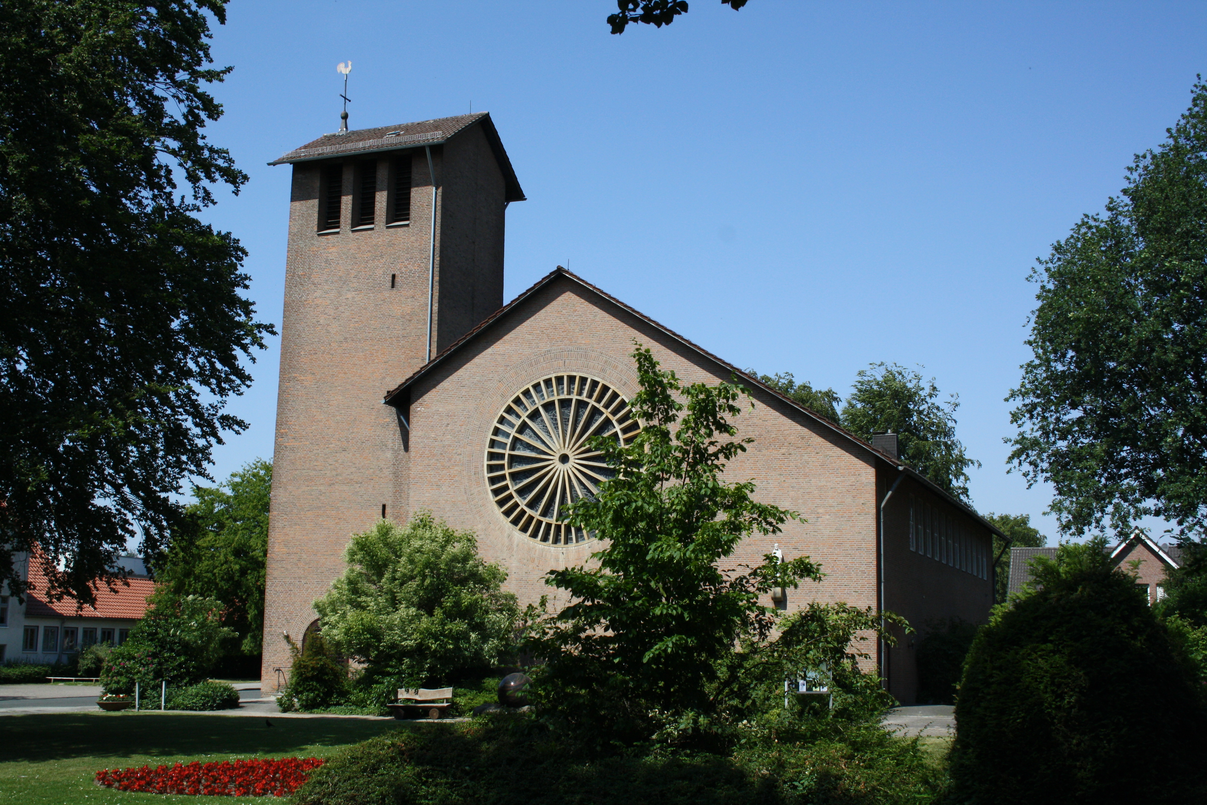 Church of the Sacred Heart in Kleve-Reichswalde, North Rhine Westphalia, Germany